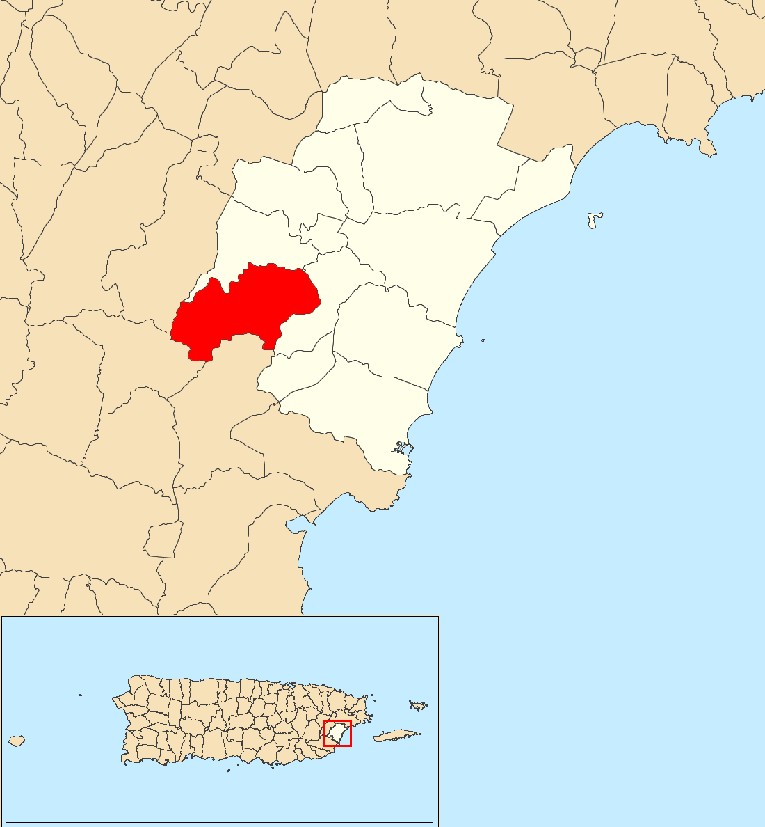 Mariana, Humacao, Puerto Rico locator map